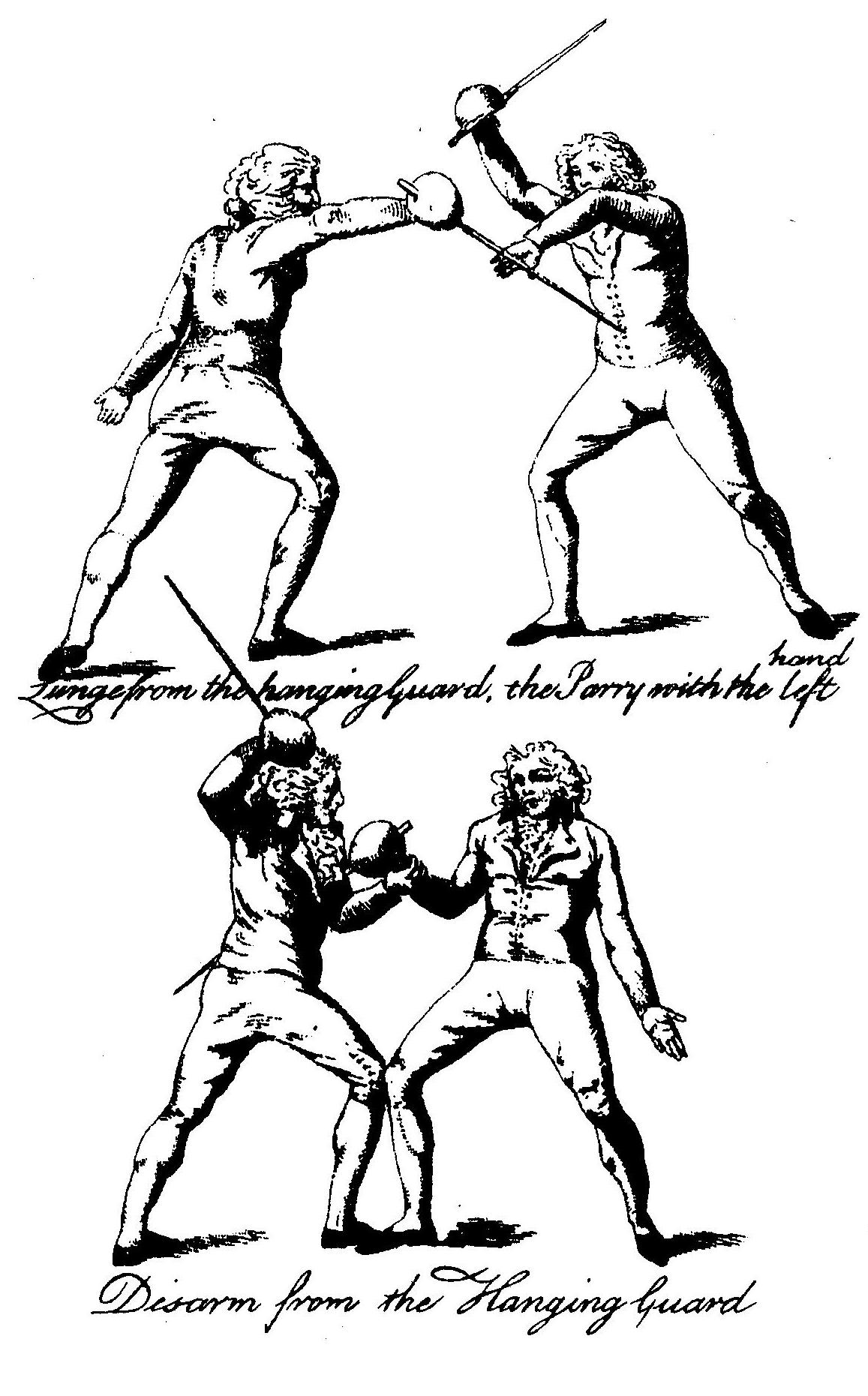 Hanging Guard images from Captain G. Sinclair's fencing treatise Anti-Pugilism